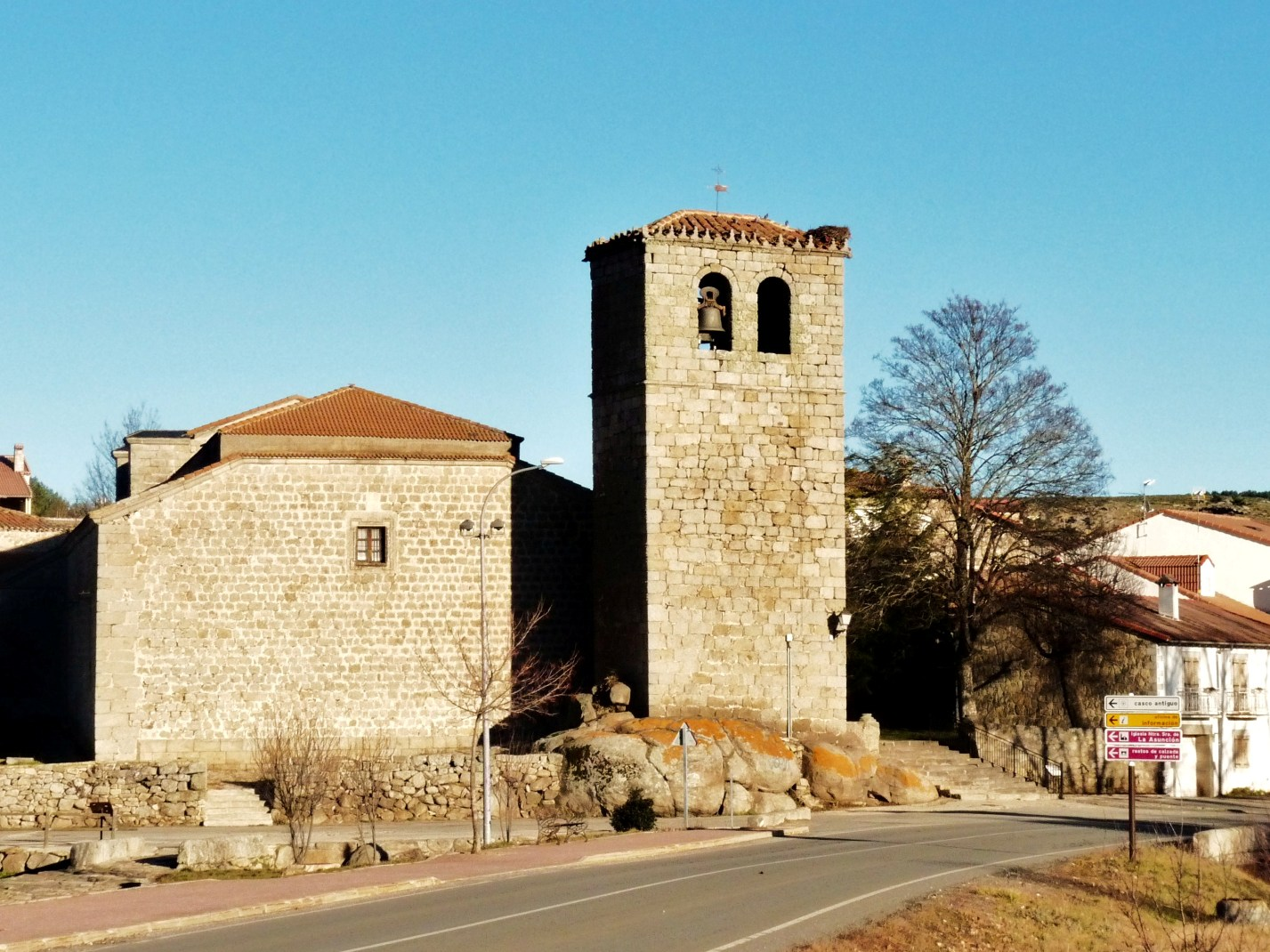 Church of Navarredonda de Gredos (Castile and León, Spain).